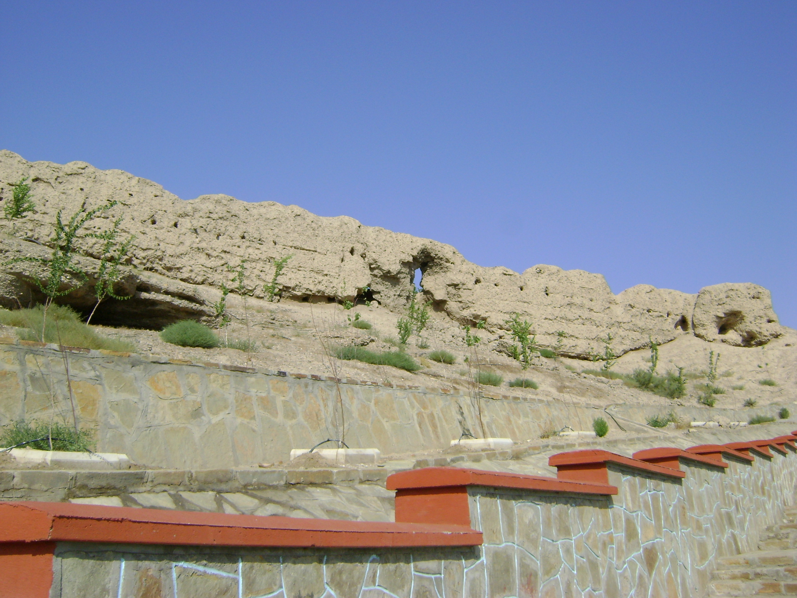 Nakhchivan_fortress_walls